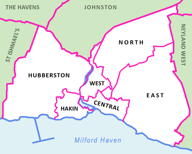 Electoral wards in (and surrounding) the town (community) of Milford Haven, Pembrokeshire.